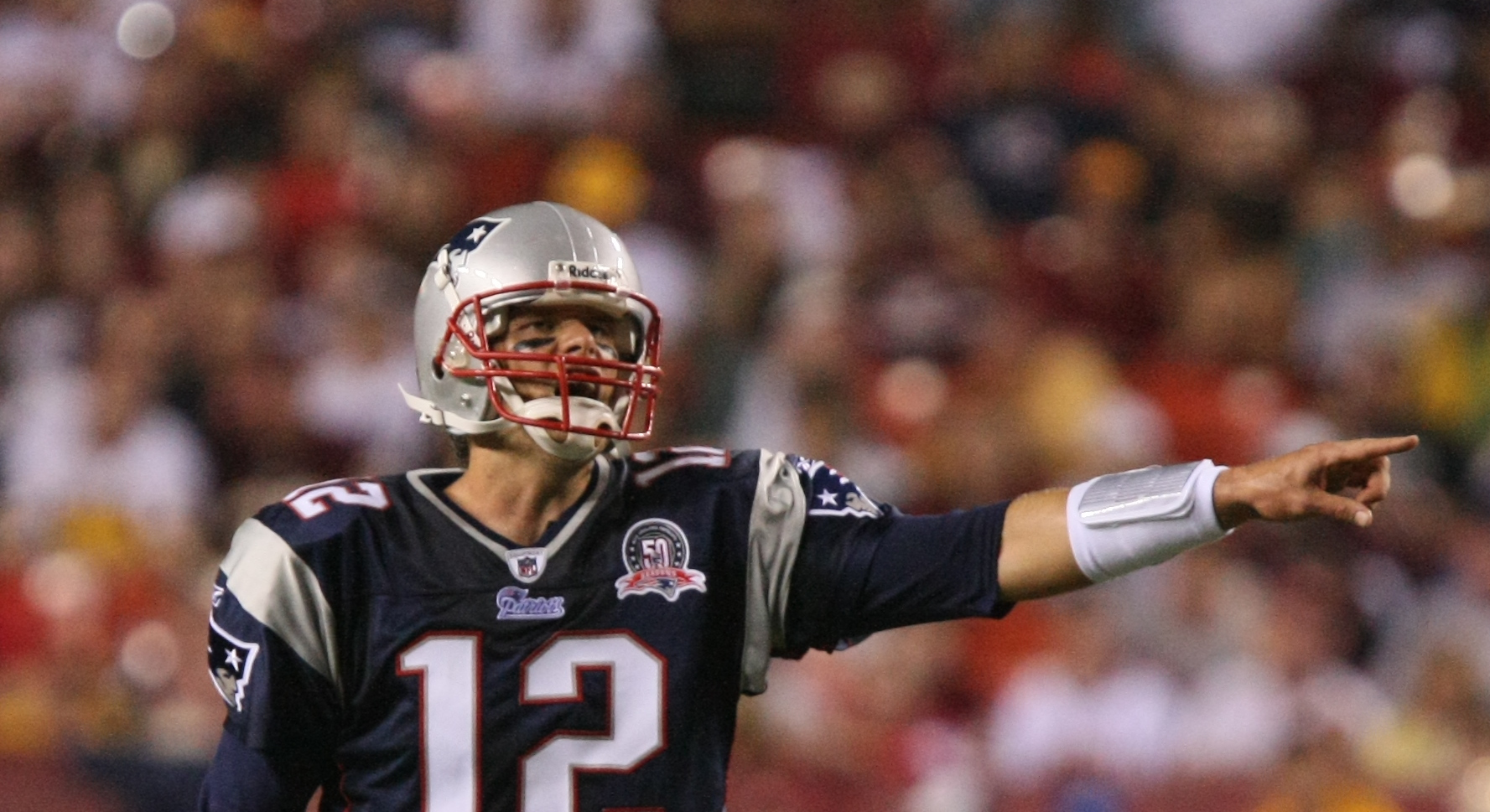 New England Patriots at Washington Redskins